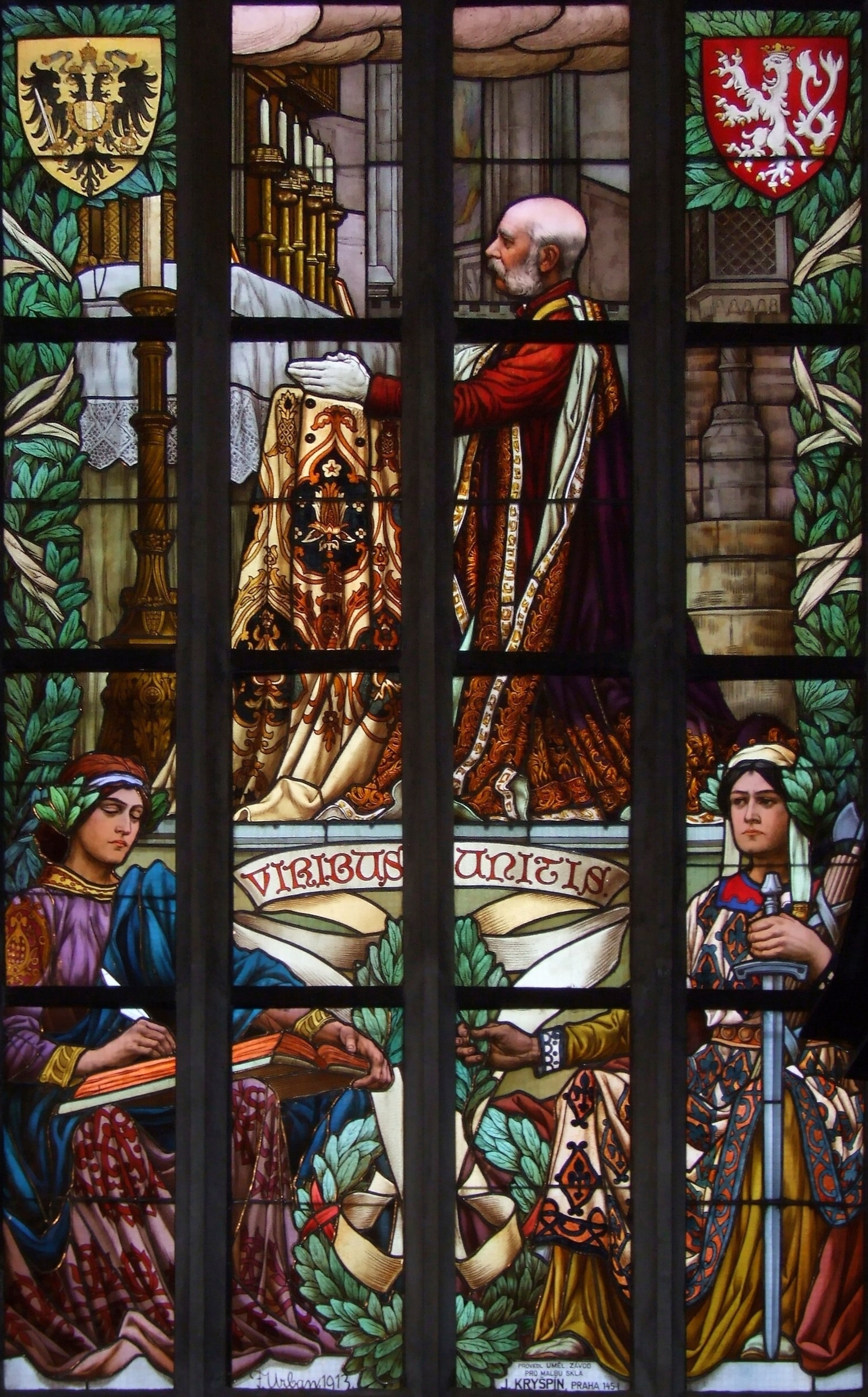 Part of stained glass in St. Barbara Church, Kutná Hora, Czech Republic. Stained glass represents emperor Franz Joseph I of Austria.